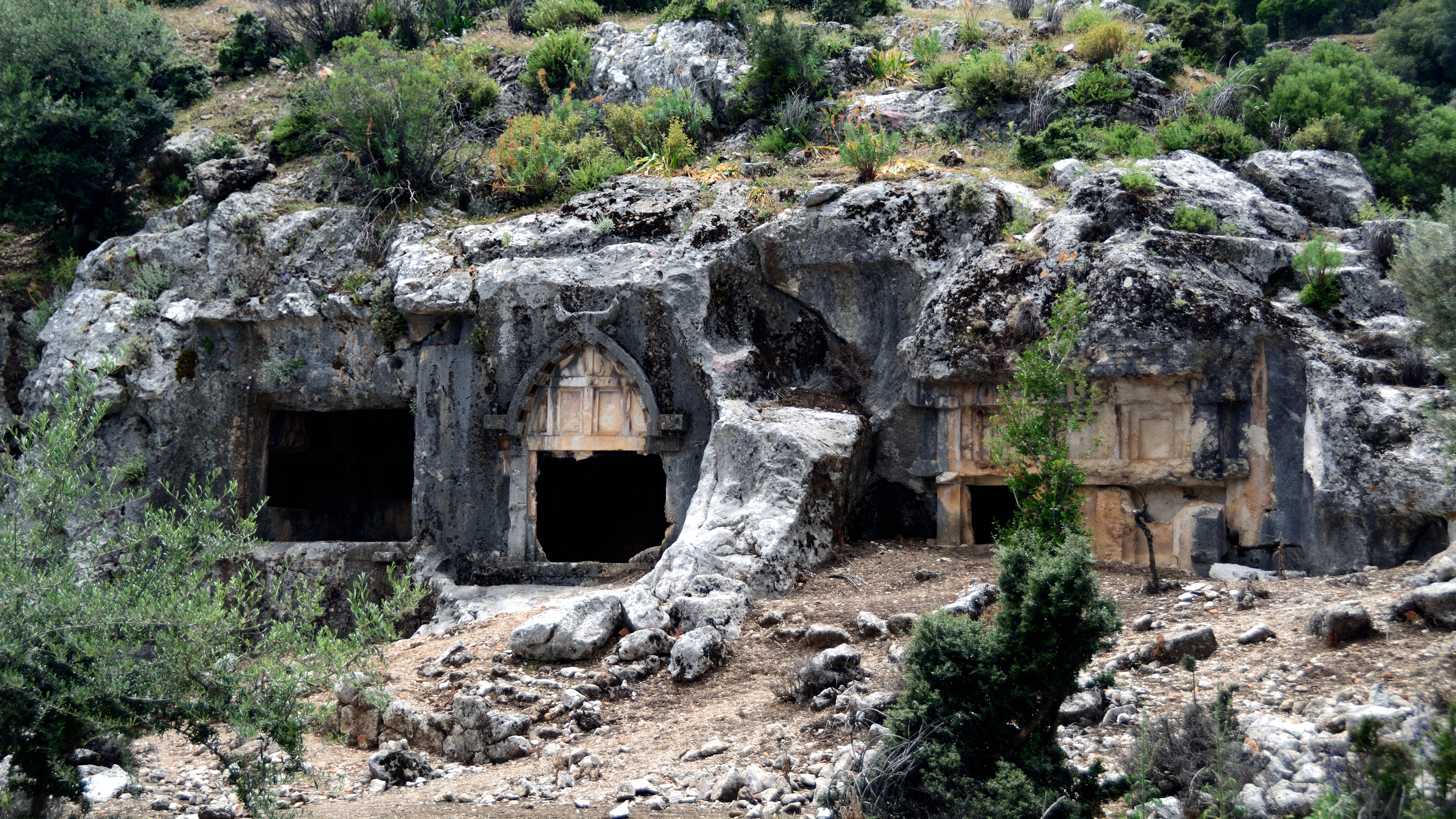 Pinara Ancient Lycian City Fethiye Turkey Rock Tombs